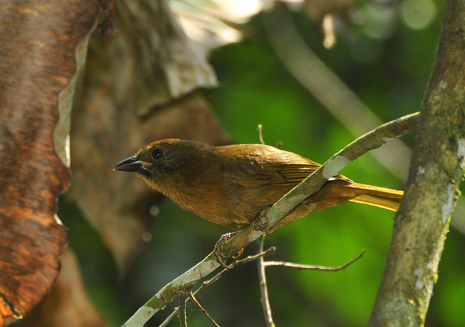 A Red-crowned Ant-tanager in Miracatu, São Paulo, Brazil.